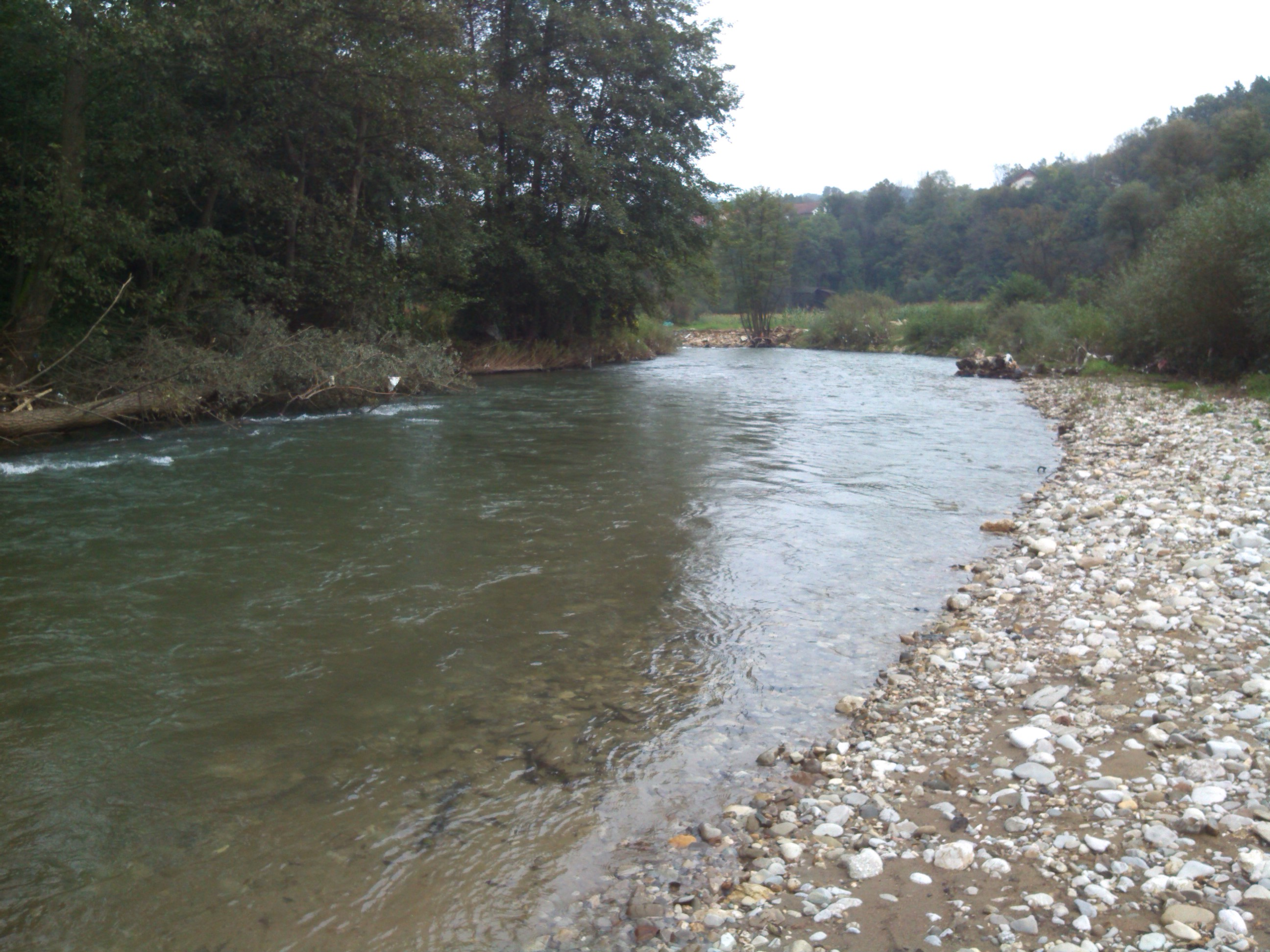 Lašva river, Vitez